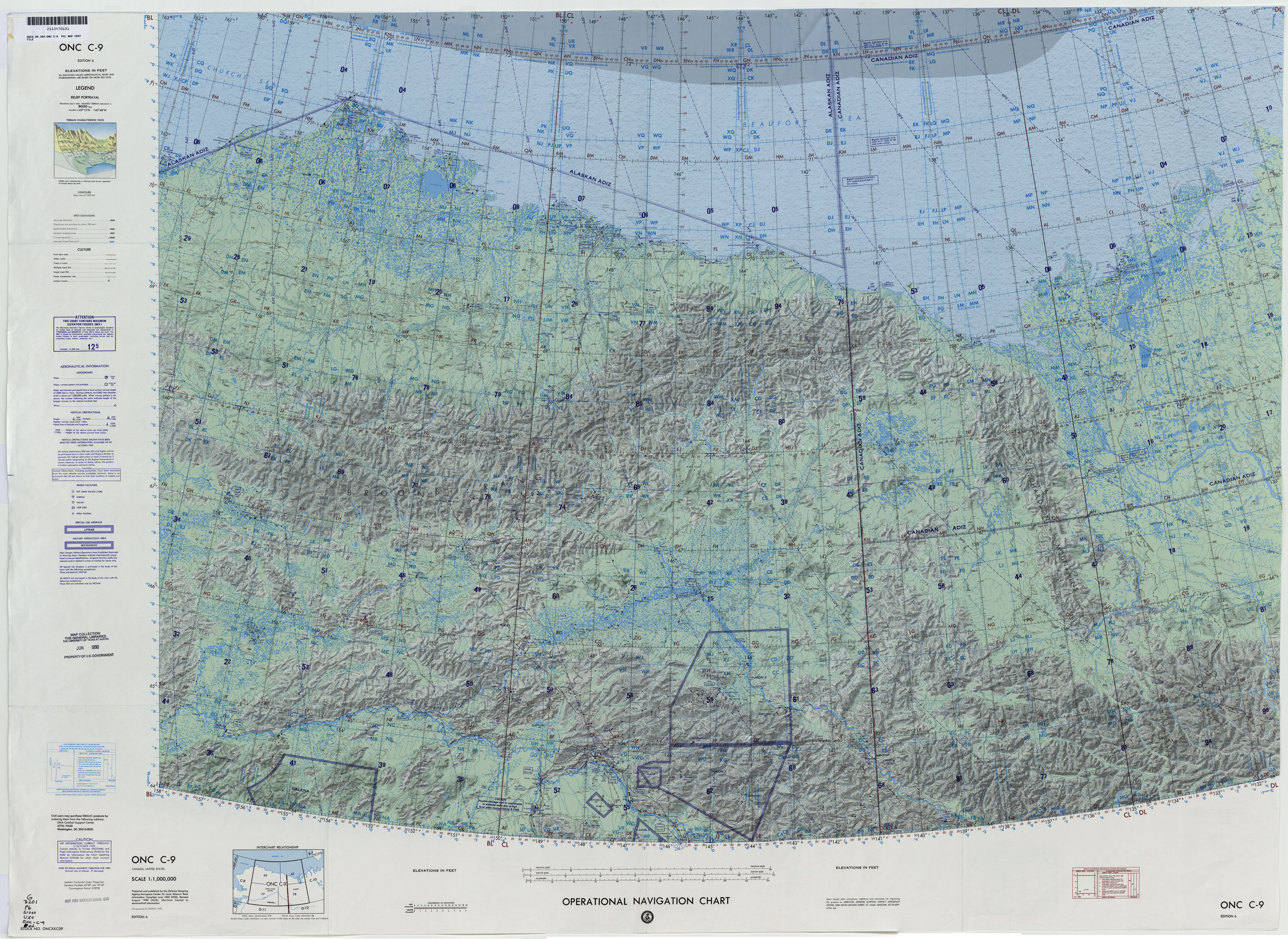 1:1,000,000 scale Operational Navigation Chart, Sheet C-9, 6th edition. Covers Canada, United States. Lambert Conformal Conic Projection. Standard Parallels 65 20N and 70 40N. Center longitude 144 47 30W.